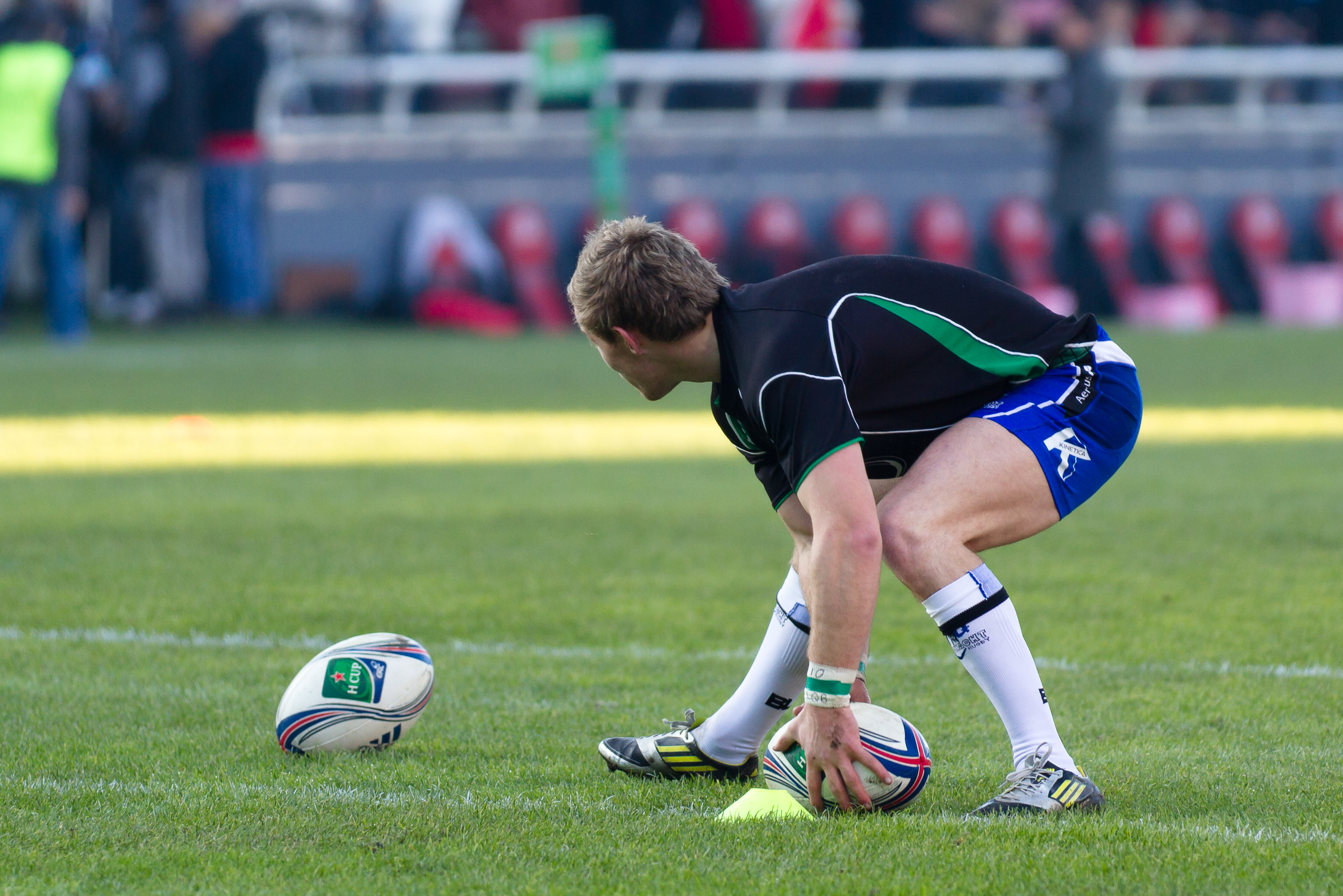 Kieran Marmion, scrum half at Connacht Rugby. Warm-up session of Heineken Cup match between Stade toulousain and Connacht Rugby, on December 8th, 2013.